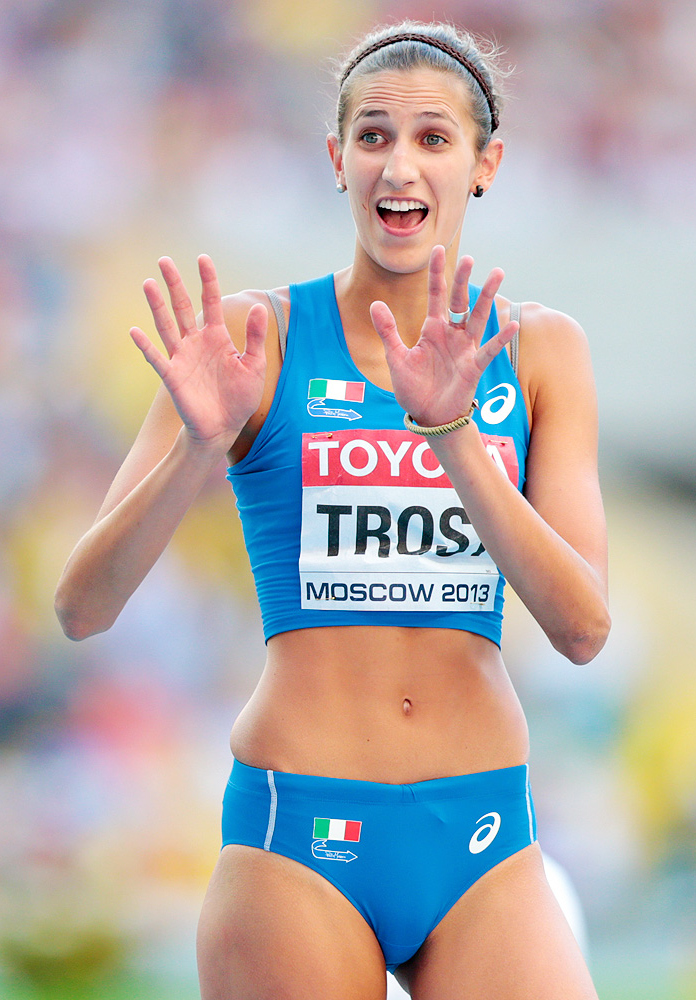 Alessia Trost at 2013 World Championships in Athletics